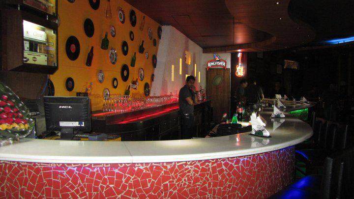 Illusion Restro and Lounge Bar, Hiland Park, Chak Garia, Kolkata, India